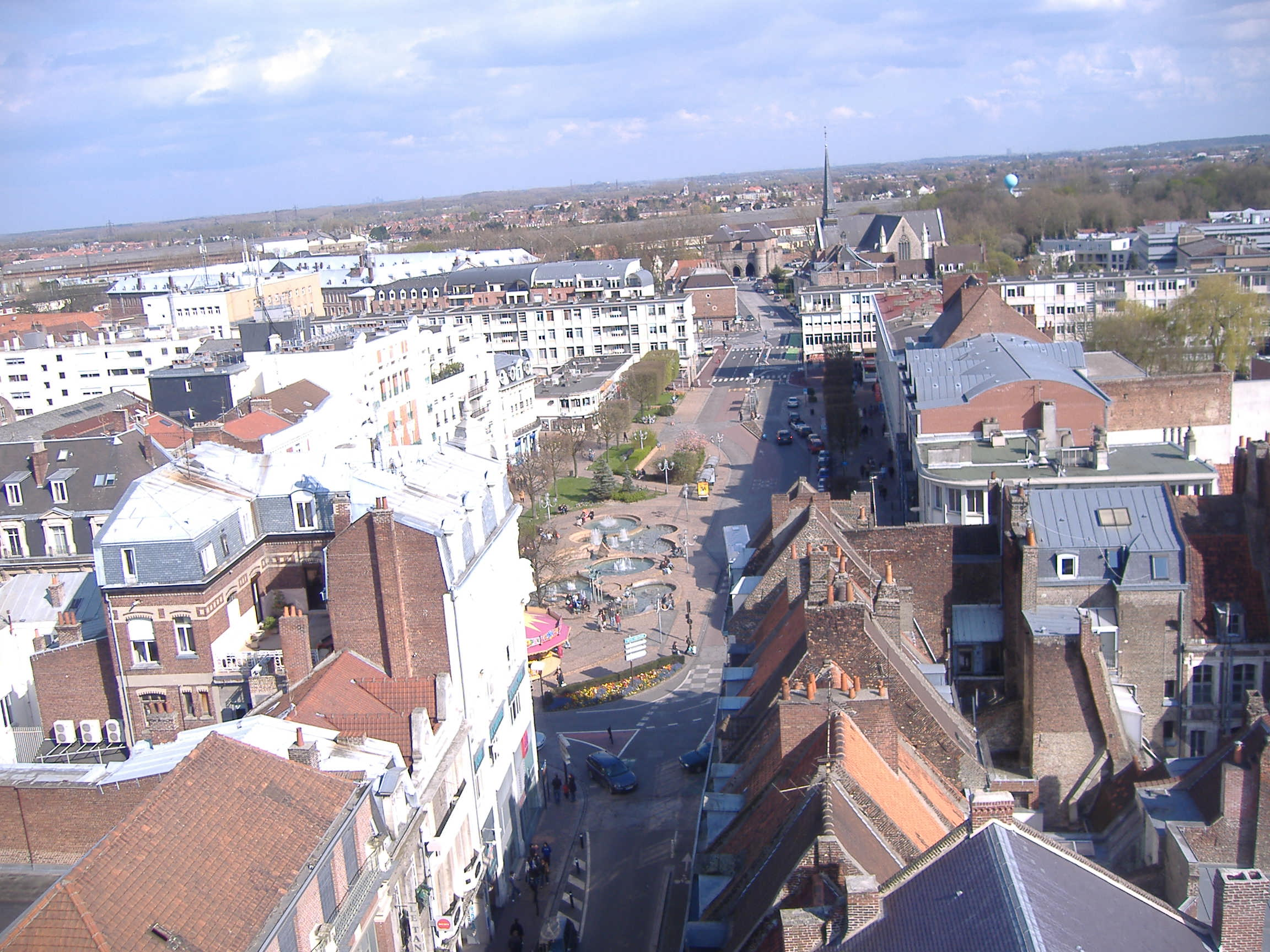 Douai, France.